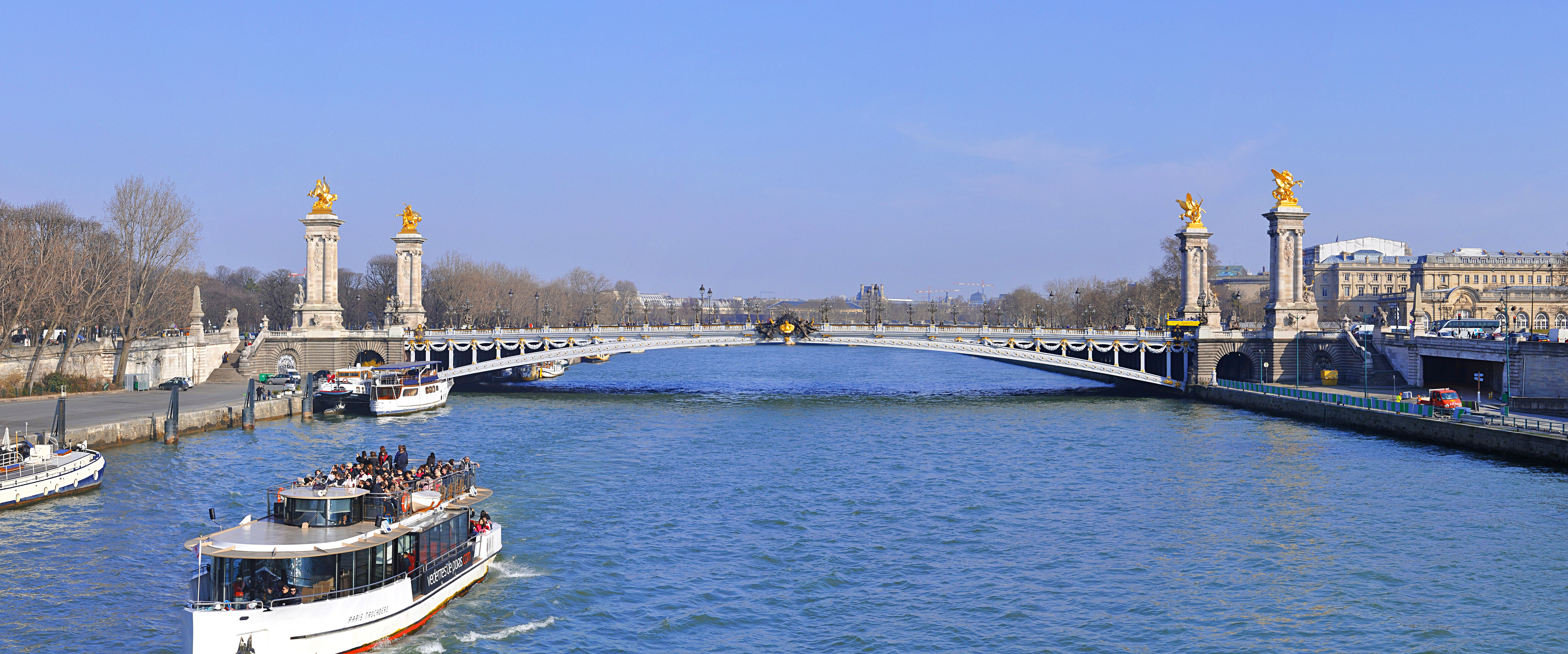 Pont Alexandre III seen from Pont des Invalides, in Paris, France.